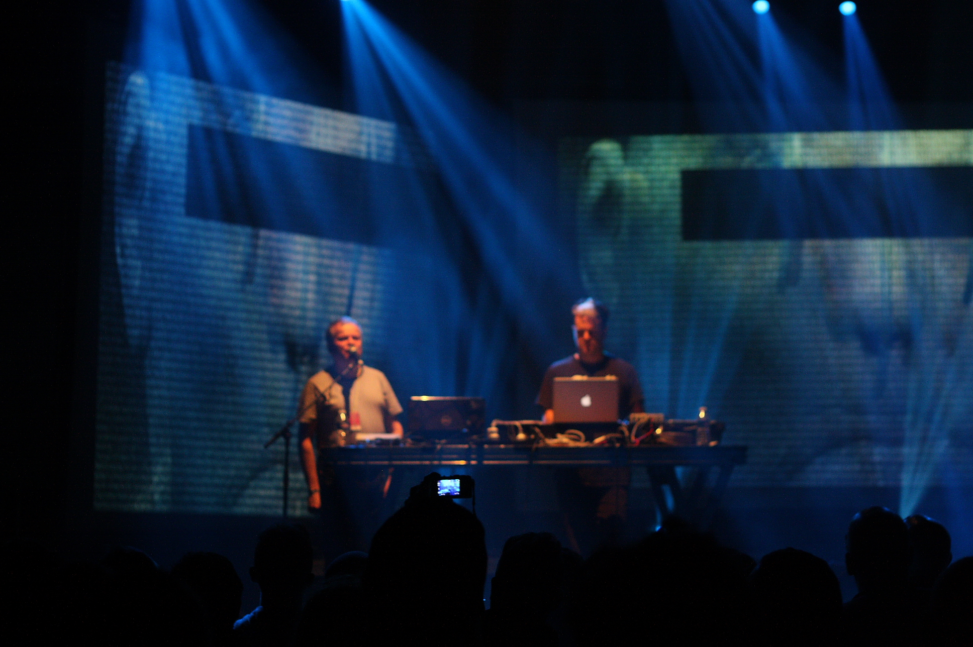 Severed Heads performing at BIMFest in Antwerp on 16 December 2011.